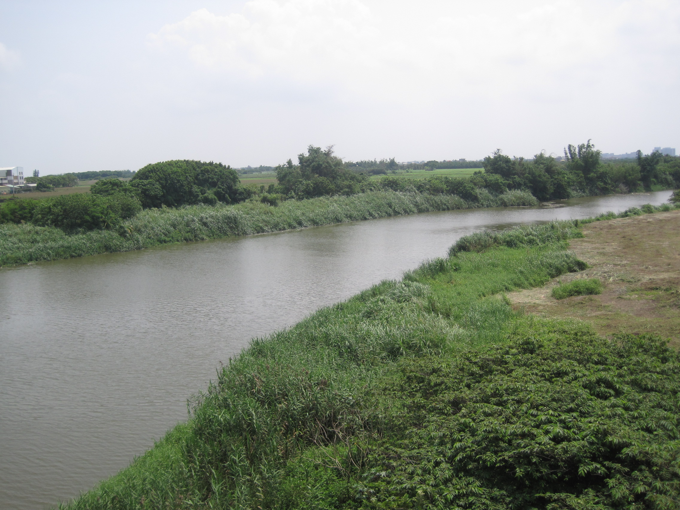 Puzih River